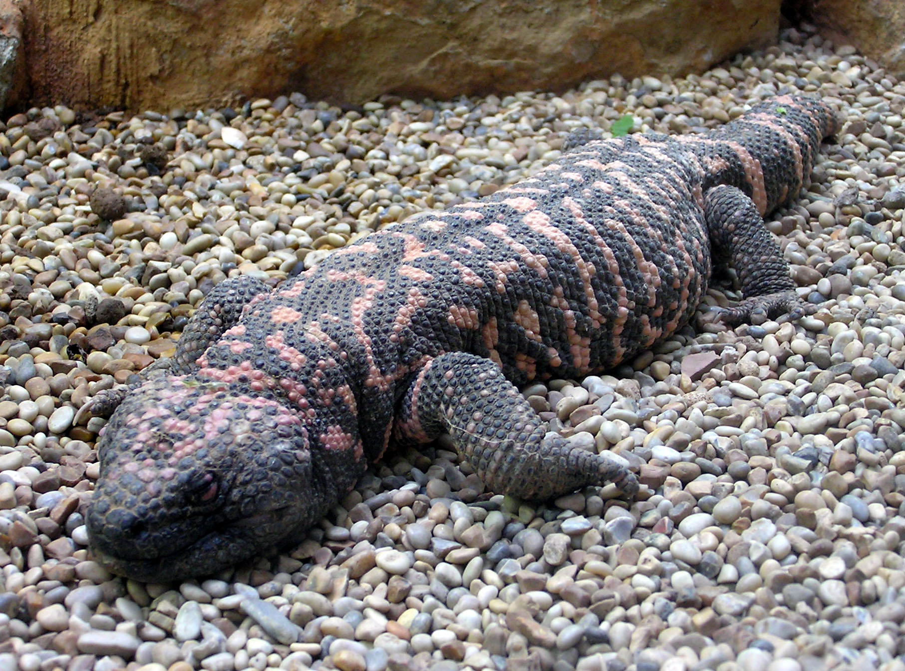 Gila (pronounced "Heela") monster Heloderma s. suspectum at Bristol Zoo, Bristol, England. Photographed by Adrian Pingstone in May 2005 and released to the public domain.